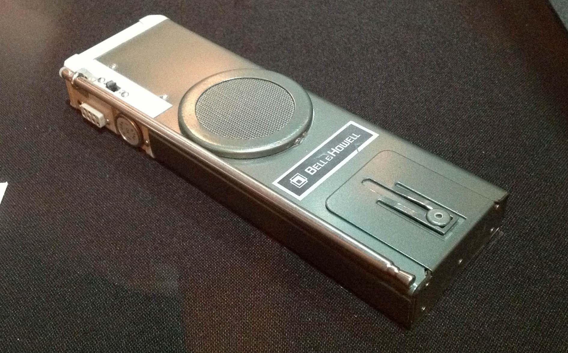 "Handie Talkie" from Record Group 21, UD Entry 7, United States v. G. Gordon Liddy, Exhibit # 106. On loan from the National Archives and Records Administration.